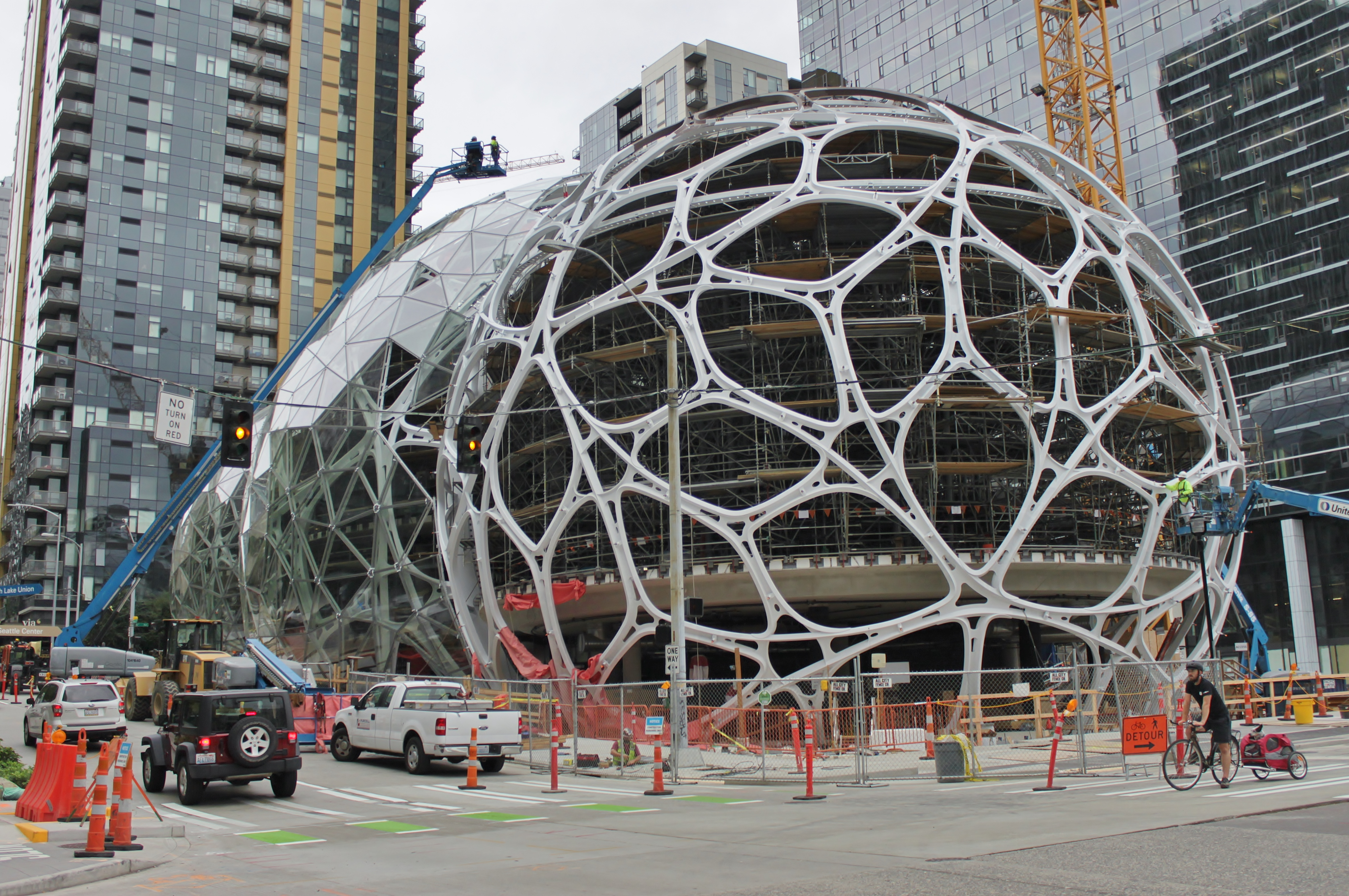 The Amazon Spheres, a tourist attraction on the Amazon headquarters campus in Seattle, seen under construction in August 2016.